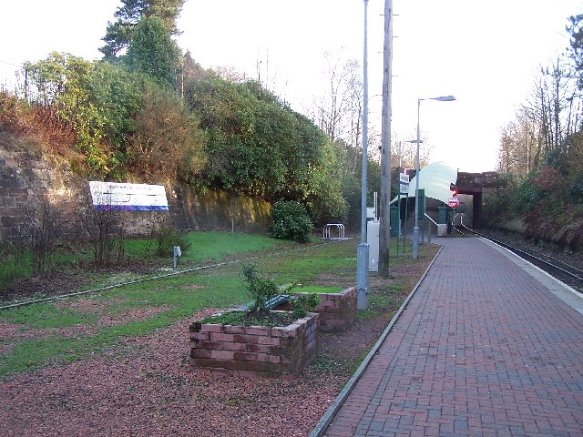 Helensburgh Upper railway station